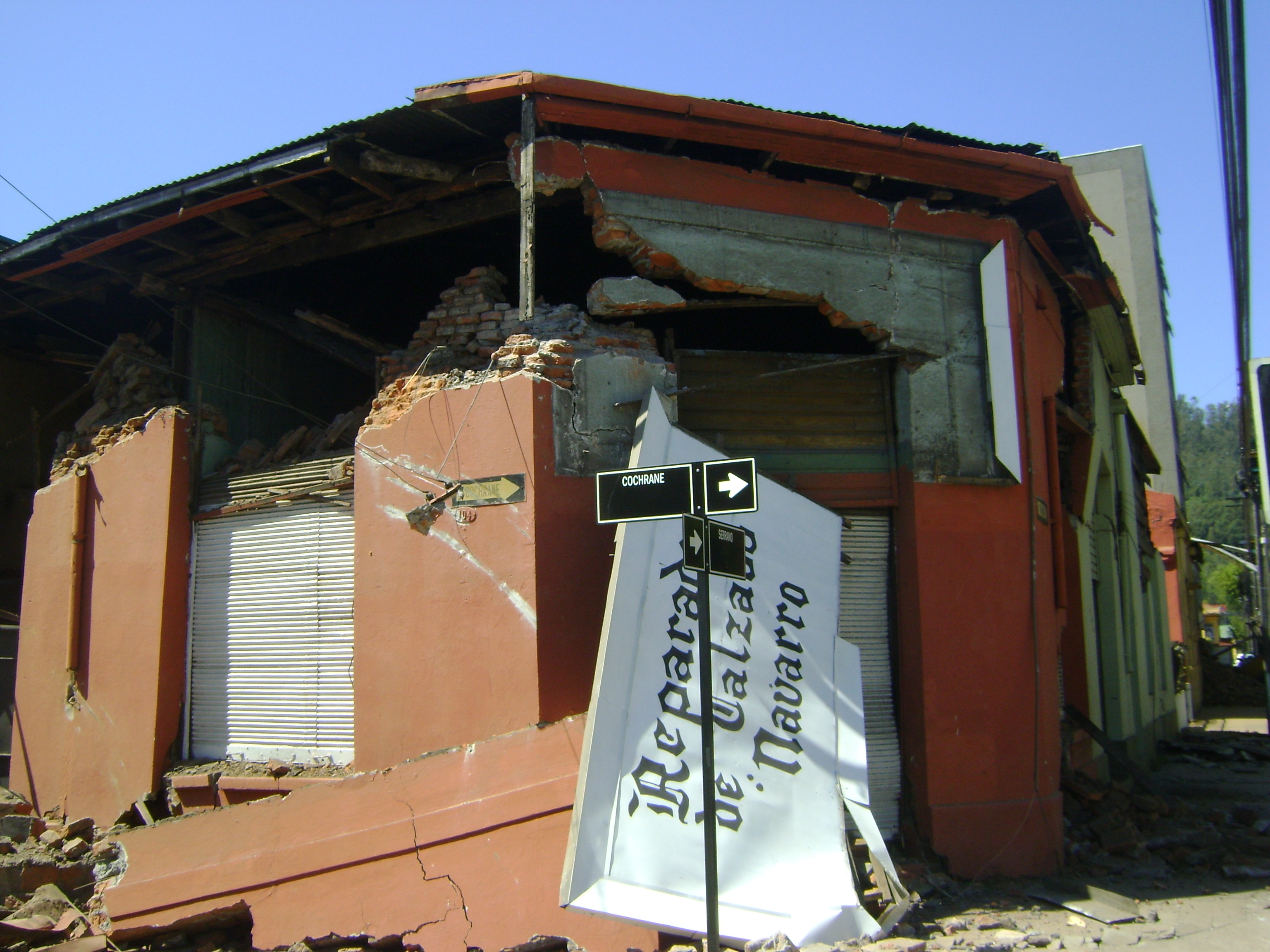 Shoe repair in the city of Concepción destroyed by the earthquake of February 27 in Chile. It was located at the corner of Serrano Cocharne